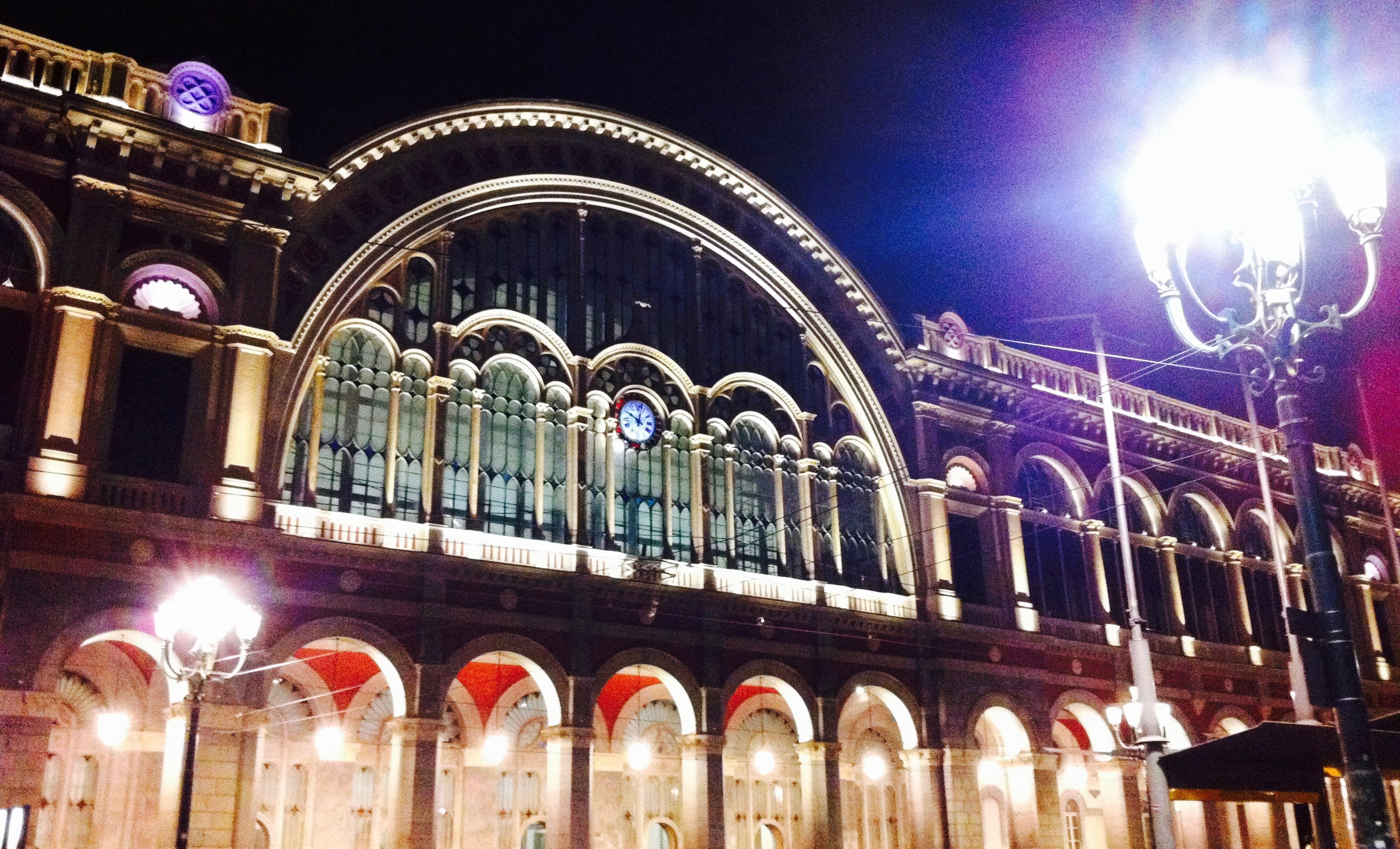 This is a photograph of the Porta Nuova train station, in Turin, Italy. It captures the facade of the building, illuminated at night, after extensive renovations.